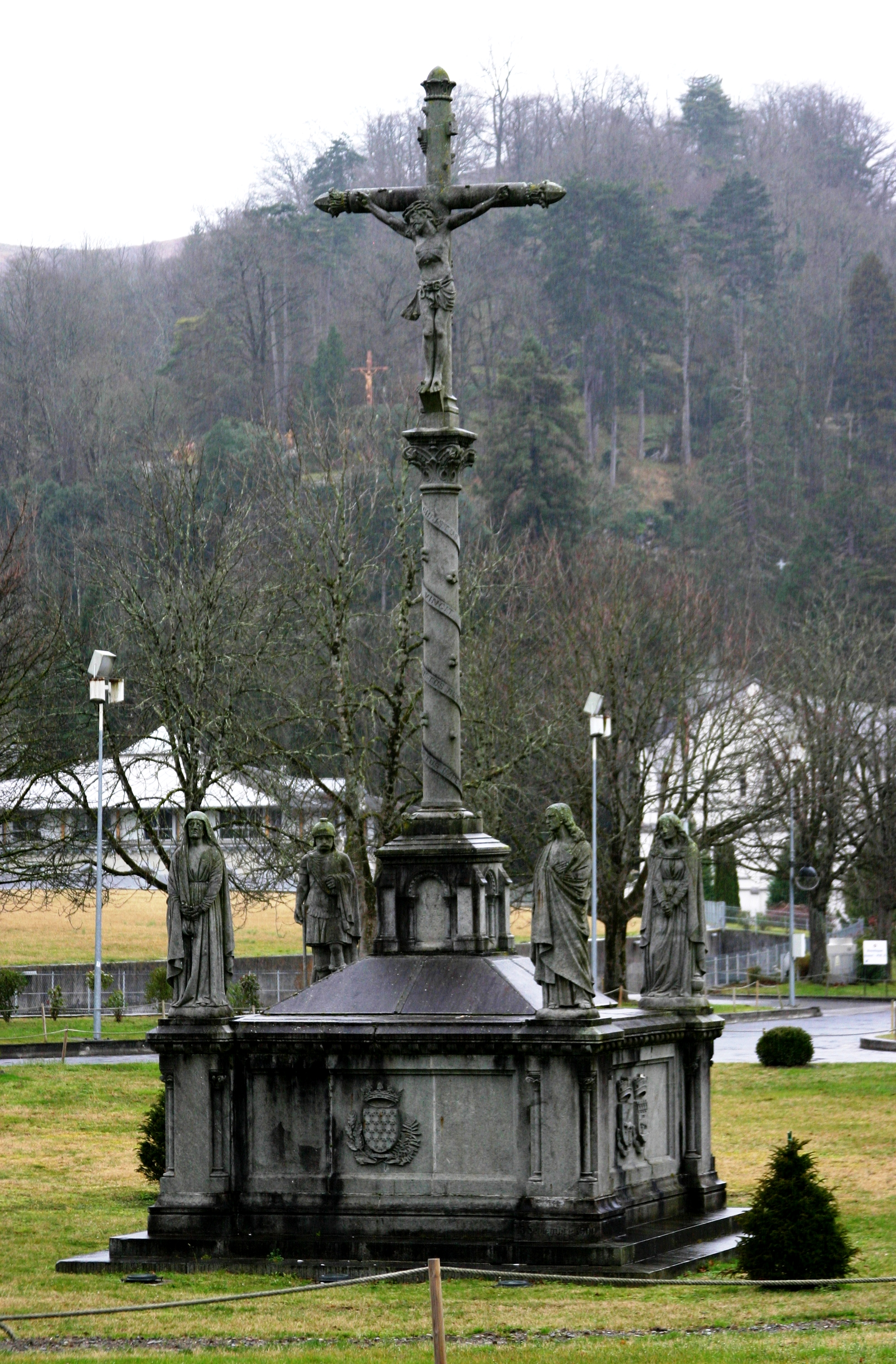 Calvary in Rosary Square - Lourdes